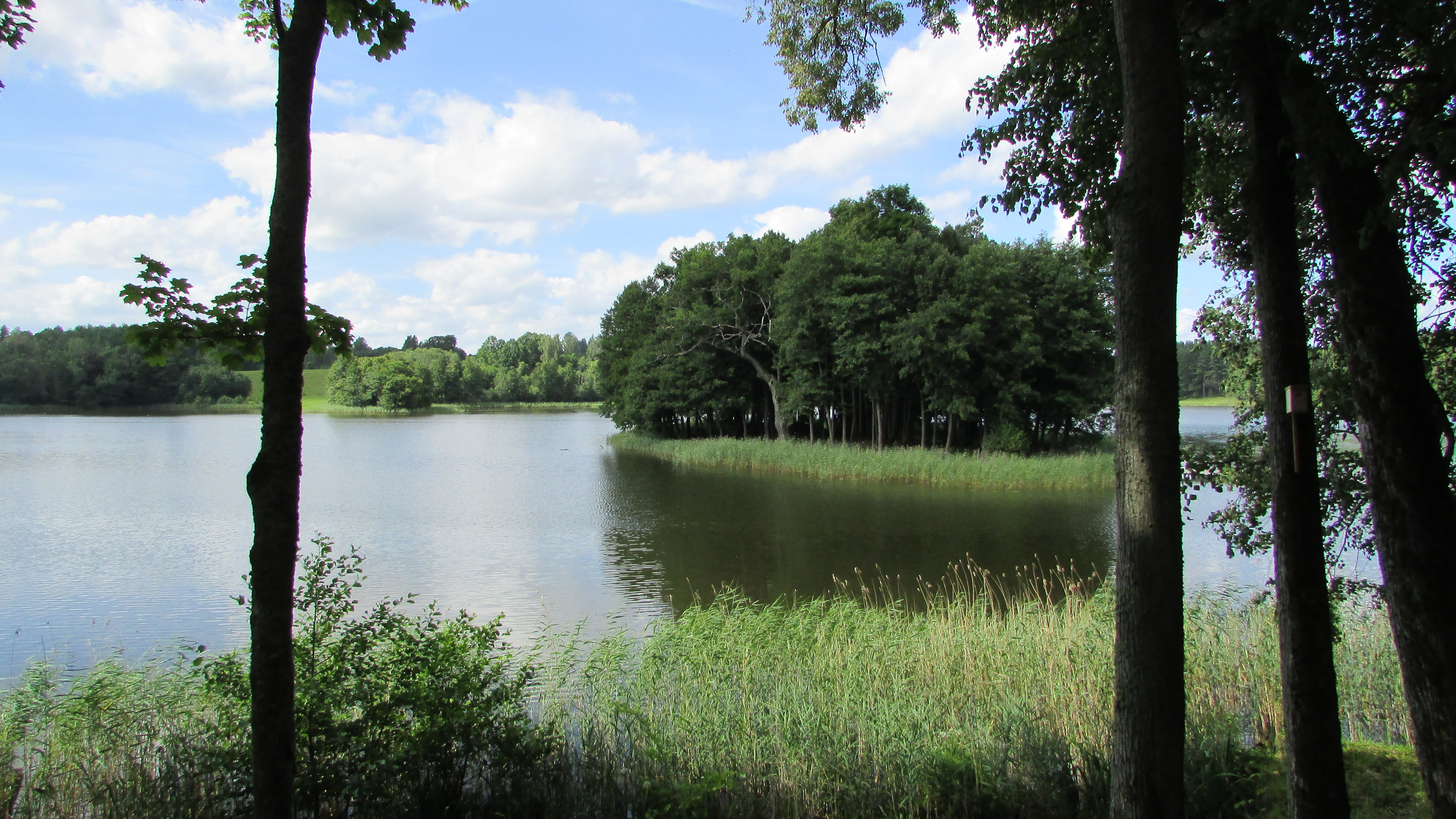 Ilzu (Garais) lake is on Latvia - Lithuania border. View from Lithuania coast to Latvia. Near Ilzenbergas manor, Juodupes municipality, Lithuania